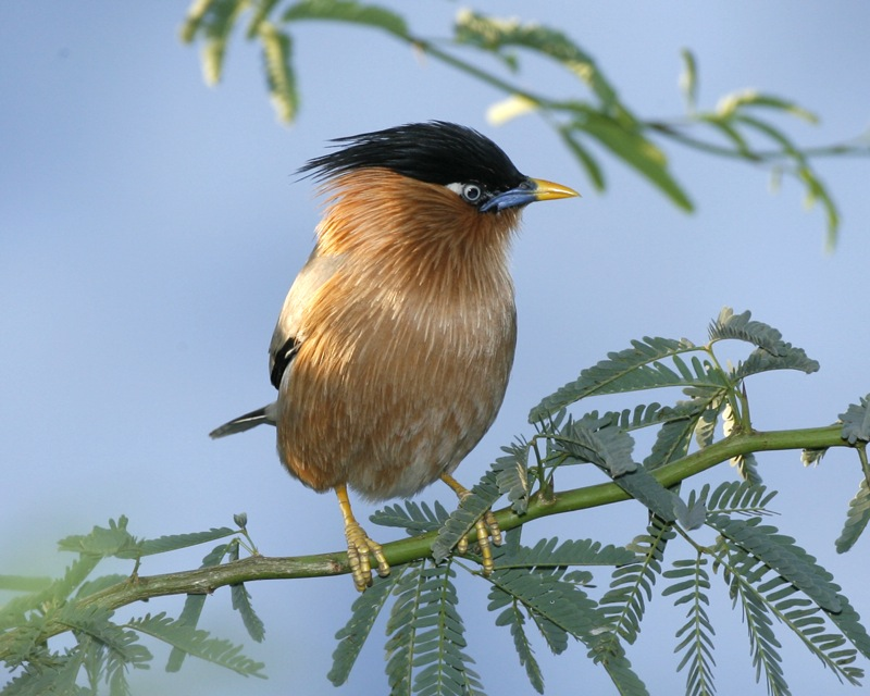 Brahminy Starling (Look nice from the back too ) Sturnus pagodarum, (Clements 4th ed) Temenuchus pagodarum (Clements 5th ed ) Location: Little Rann of Kutch, Gujerat, India 28th. November 2006 Alt. Names: Black-headed Myna, Black-headed Starling, Brahminy Myna, Brahminy mynah